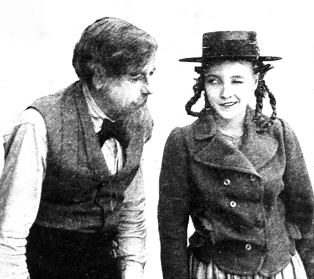 Hulda (Bessie Love) winks to distract the apothecary in The Flying Torpedo